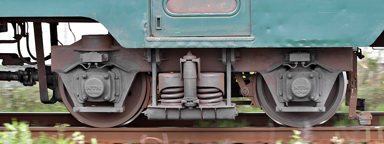 Kishu Railway Kiha 600, Nippon Sharyo Type ND208B drive truck